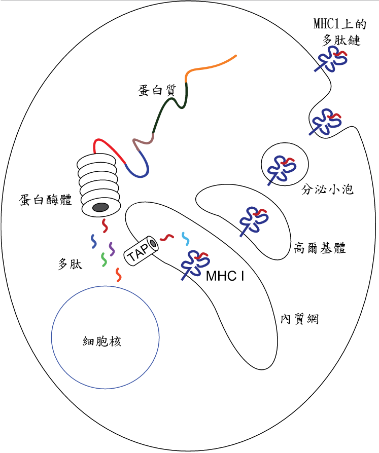 Chinese version of File:MHC Class I processing.svg, which is published under the CC-BY-SA 3.0 license.